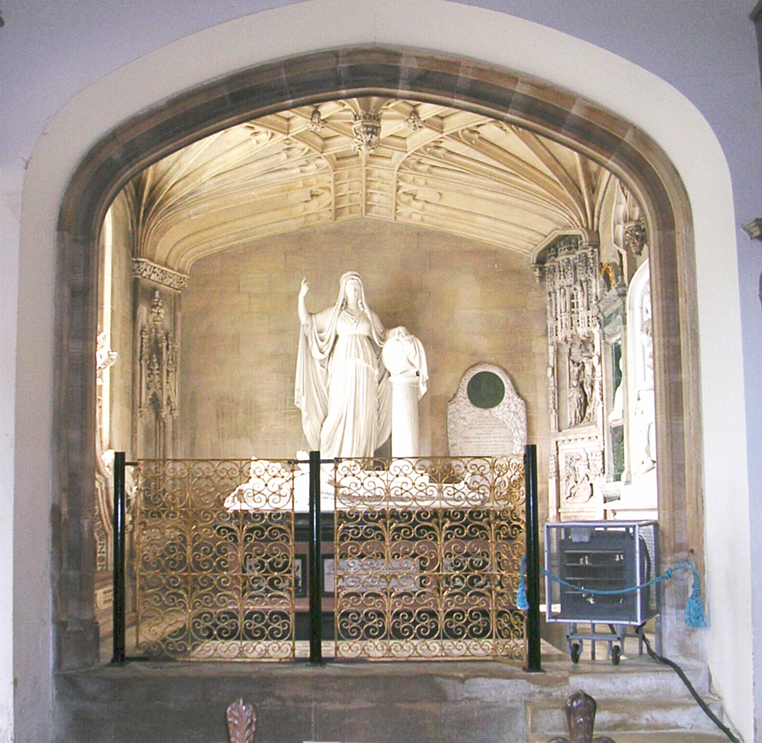 Interior of Belton Church, Lincolnshire, England. Photographed by Giano June 2006. Retouched by Rugby471.